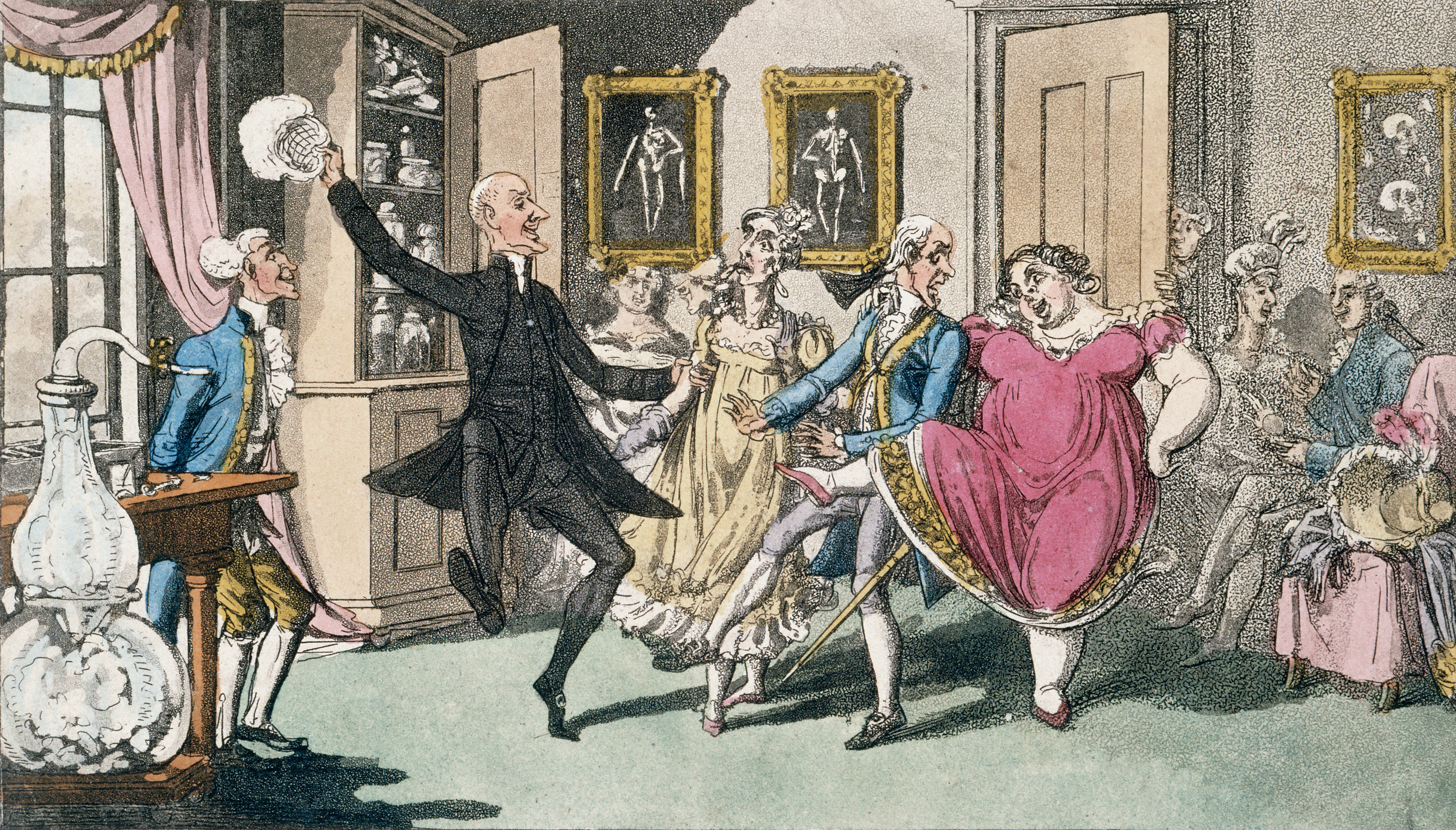 Doctor and Mrs Syntax, with a party of friends, experimenting with laughing gas. Coloured aquatint by T. Rowlandson after W. Combe. Iconographic Collections Keywords: Doctor Syntax; William Combe; Thomas Rowlandson